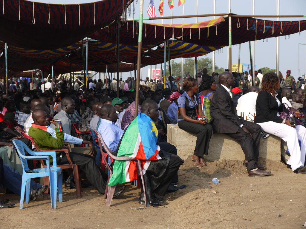 South Sudan independence day. Sarah Taylor/USAID. Learn more about USAID's work in South Sudan on our website